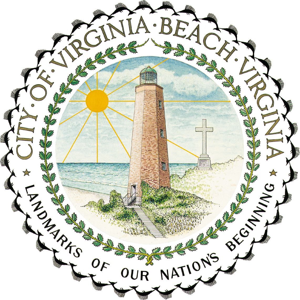 The official city seal of Virginia Beach, Virginia.